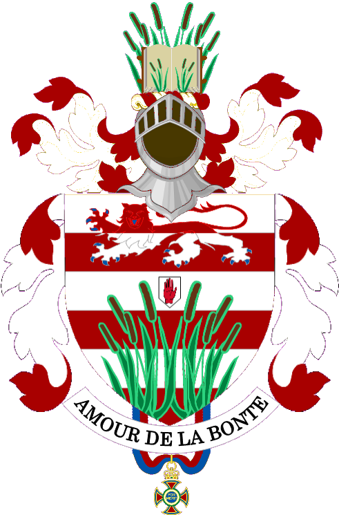 The armorial achievement of Sir James Barrie, Baronet